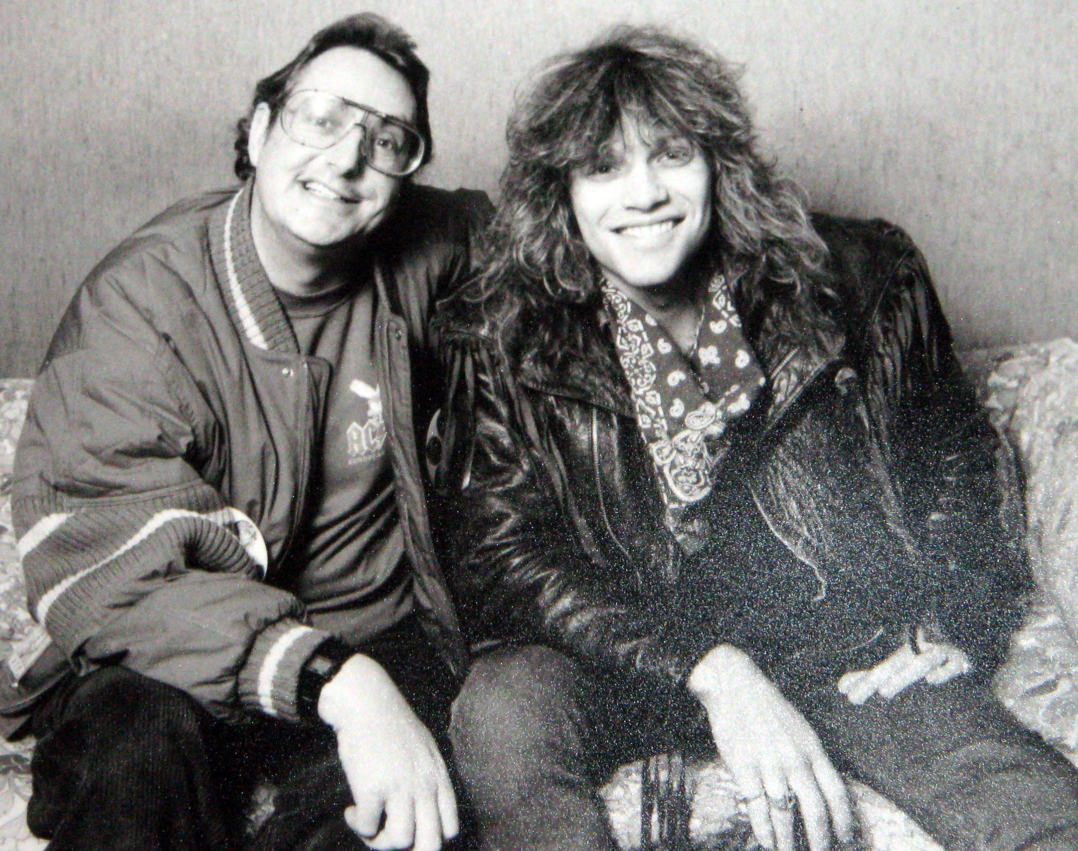 Jonathan King, British record producer, with Jon Bon Jovi